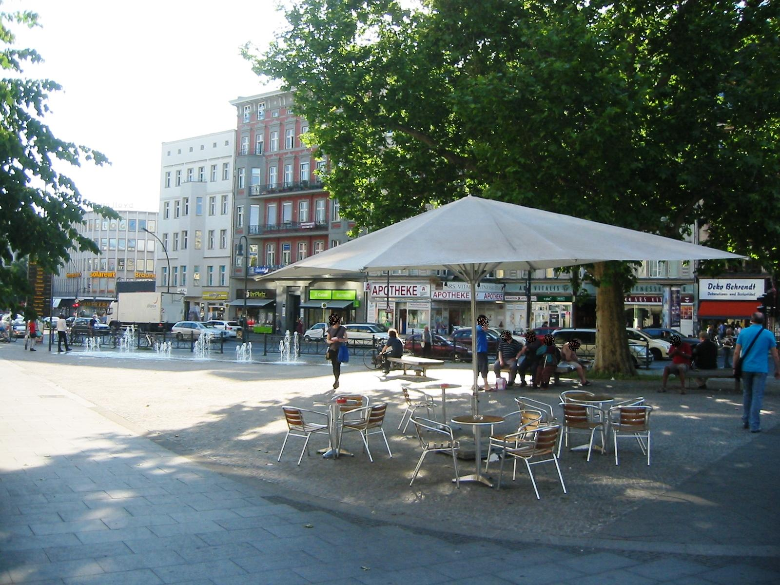 Berlin-Schöneberg Kaiser-Wilhelm-Platz